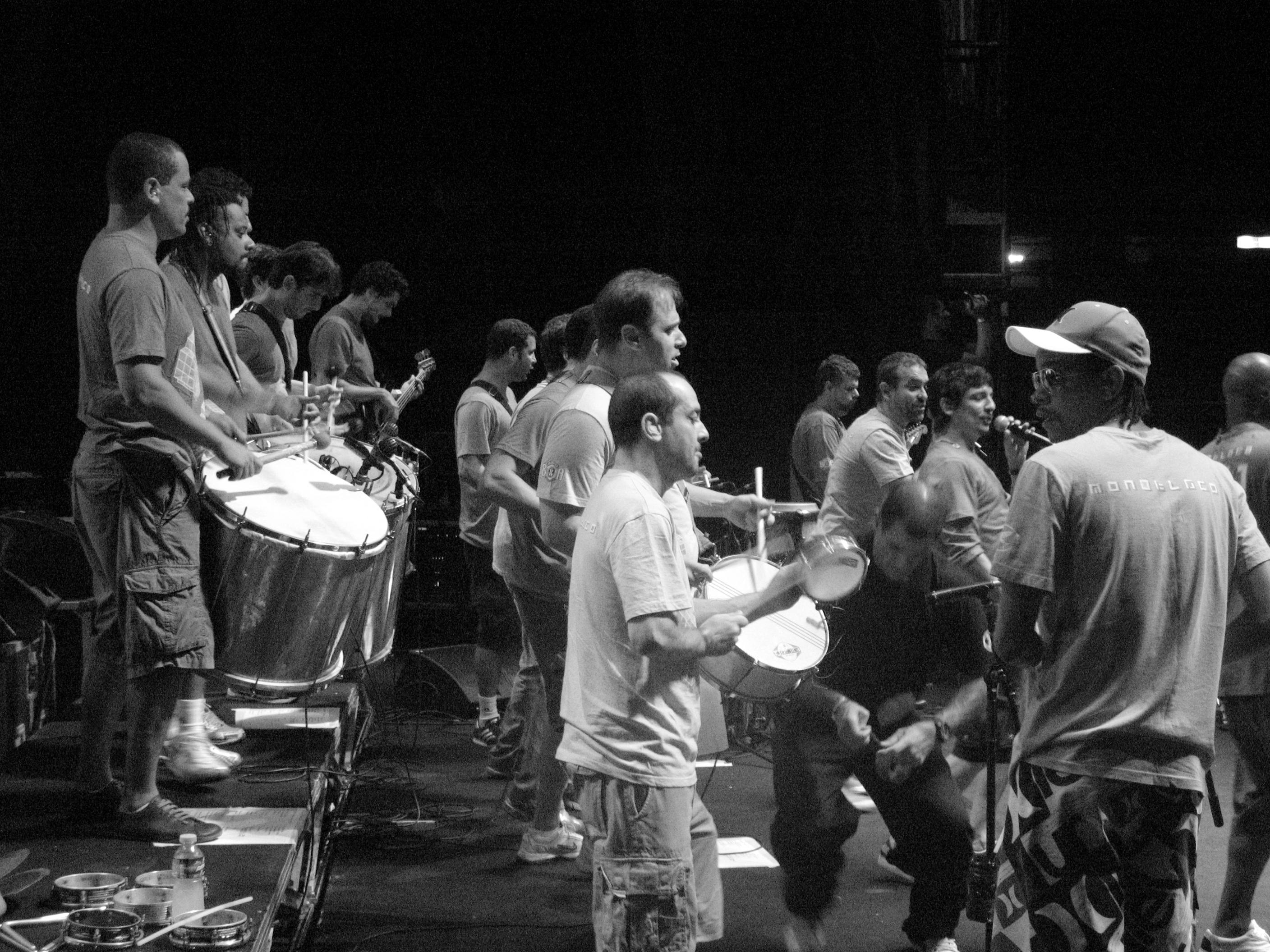 Monobloco Show performs at Fundição Progresso, Rio de Janeiro, 2011.